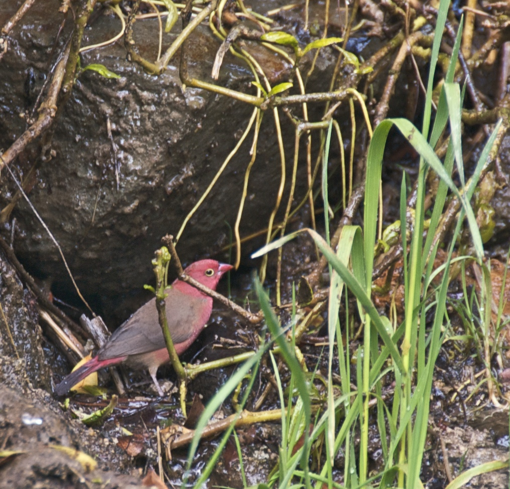 Red-billed Firefinch Lagonosticta senegala, male, down the trail to the Monastery of Na’akuto La’ab, making repeated visits to a small pool of water near the edge of the trail for a drink. The water's source is the large overhanging rock ledge shown in the preceding photo, which probably has a number of springs, especially after the rainy season. Near Lalibela, Ethiopia.